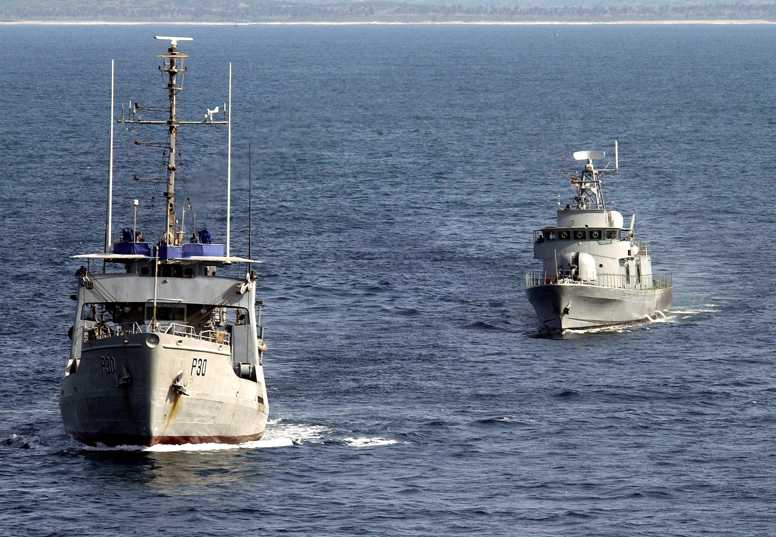 The Ghanaian Naval Ship Anzone, front, and the GNS Achimotaz during the West African Training Cruise ‘06 in the Gulf of Guinea, Oct. 20, 2005..